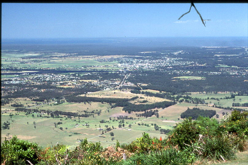 nowra, australia